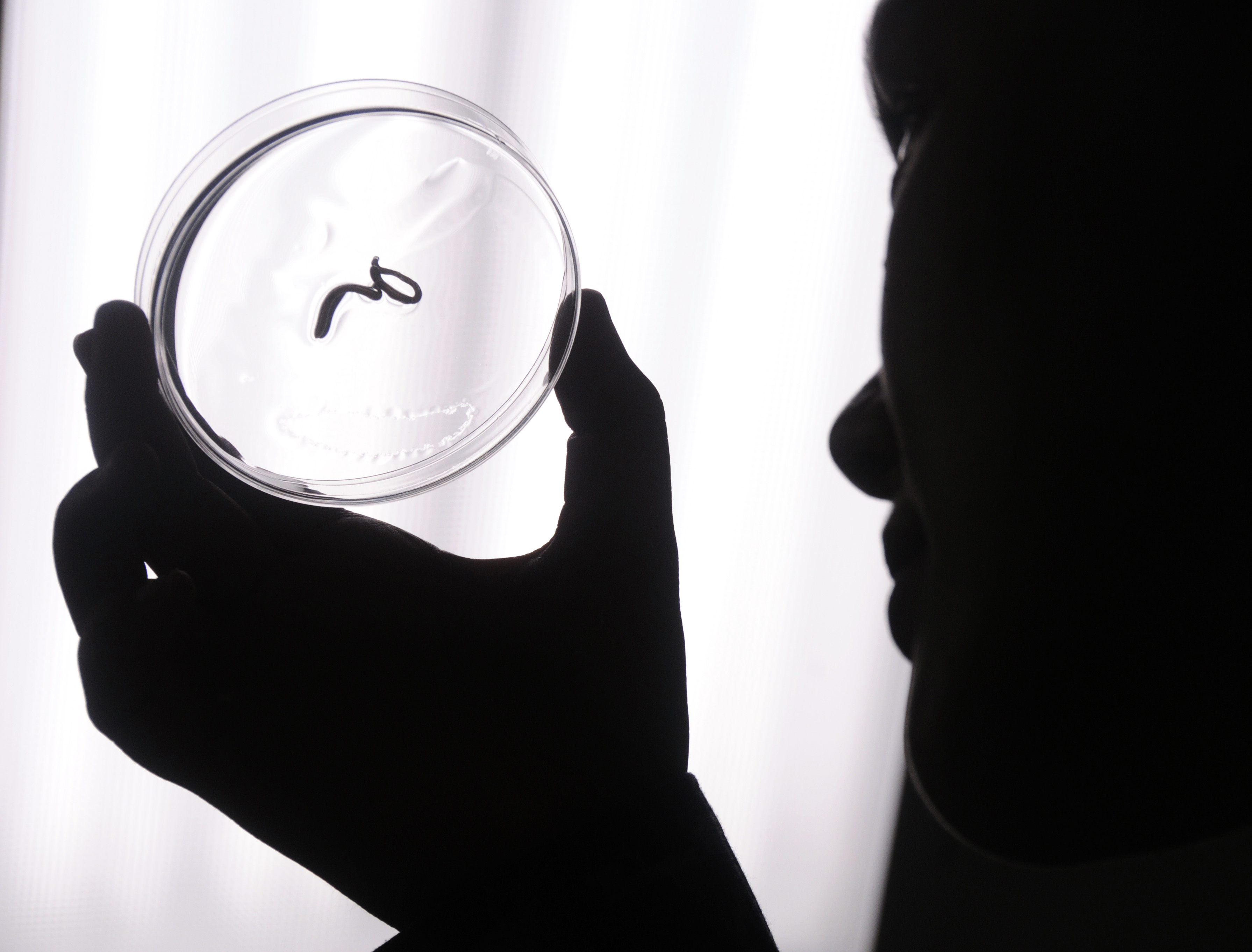 PEARL HARBOR (May 6, 2010) Hospital Corpsman 2nd Class Stephanie Messina, assigned to the entomology division of Navy Environmental and Preventive Medicine (NEPMU) 6 at Joint Base Pearl Harbor-Hickam, examines a 2-inch-long Hawaiian blind snake. Medical entomology is the study of insects, spiders, ticks and mites, collectively referred to as arthropods, and the diseases they transmit. NEPMU-6 supports operational forces and shore installations by providing services such as pest control training and uniform treatment with insect repellent. (U.S. Navy photo by Mass Communication Specialist 2nd Class Mark Logico/Released)